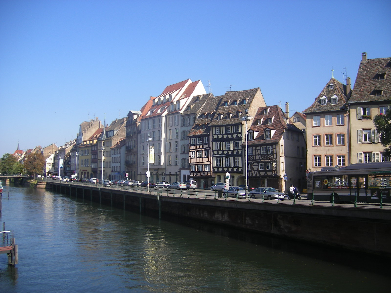 Strasbourg